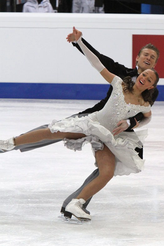 Ekaterina Riazanova / Ilia Tkachenko at the 2011 European Figure Skating Championships